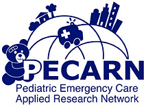 The file contains the logo of the pediatric emergency network